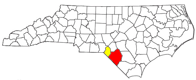 Locator map of the Lumberton-Laurinburg Combined Statistical Area in the southern part of the U.S. state of North Carolina. The two components of the CSA are colored separately: Lumberton Micropolitan Statistical Area: red Laurinburg Micropolitan Statistical Area: yellow